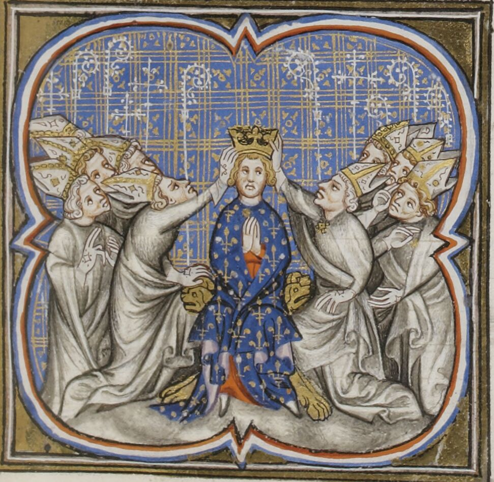 Coronation of Louis IV d'Outremer.